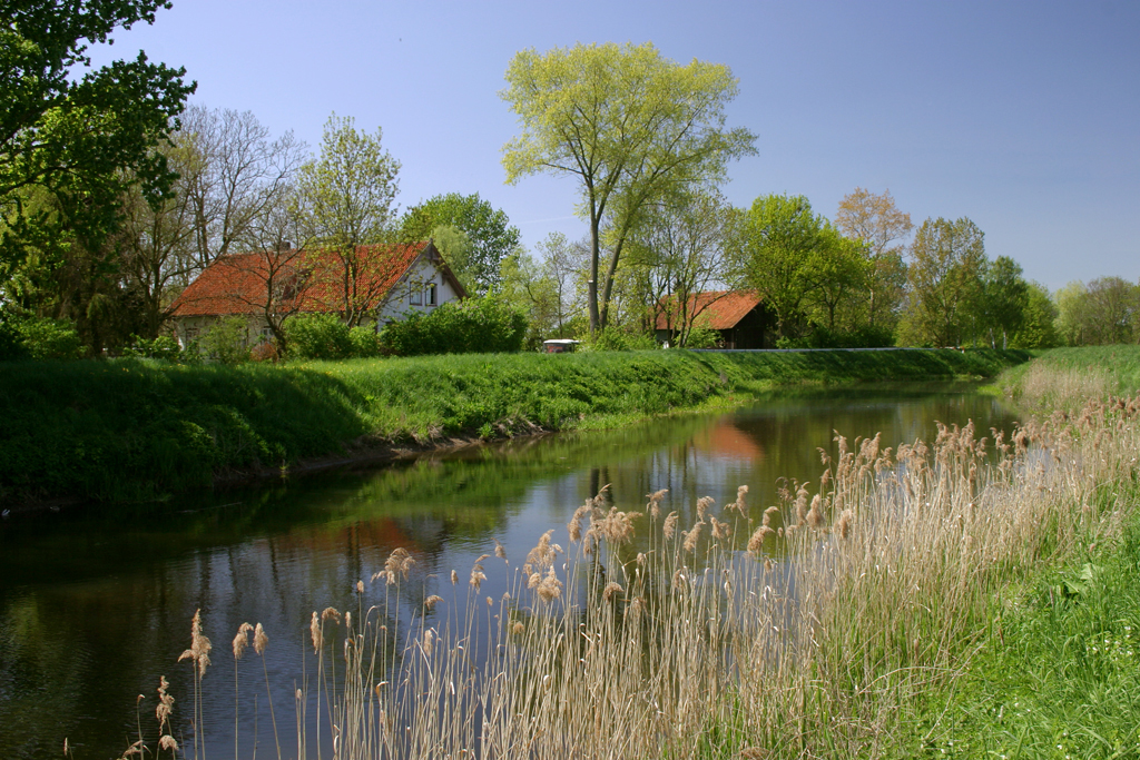 Ledowo near Molawa river